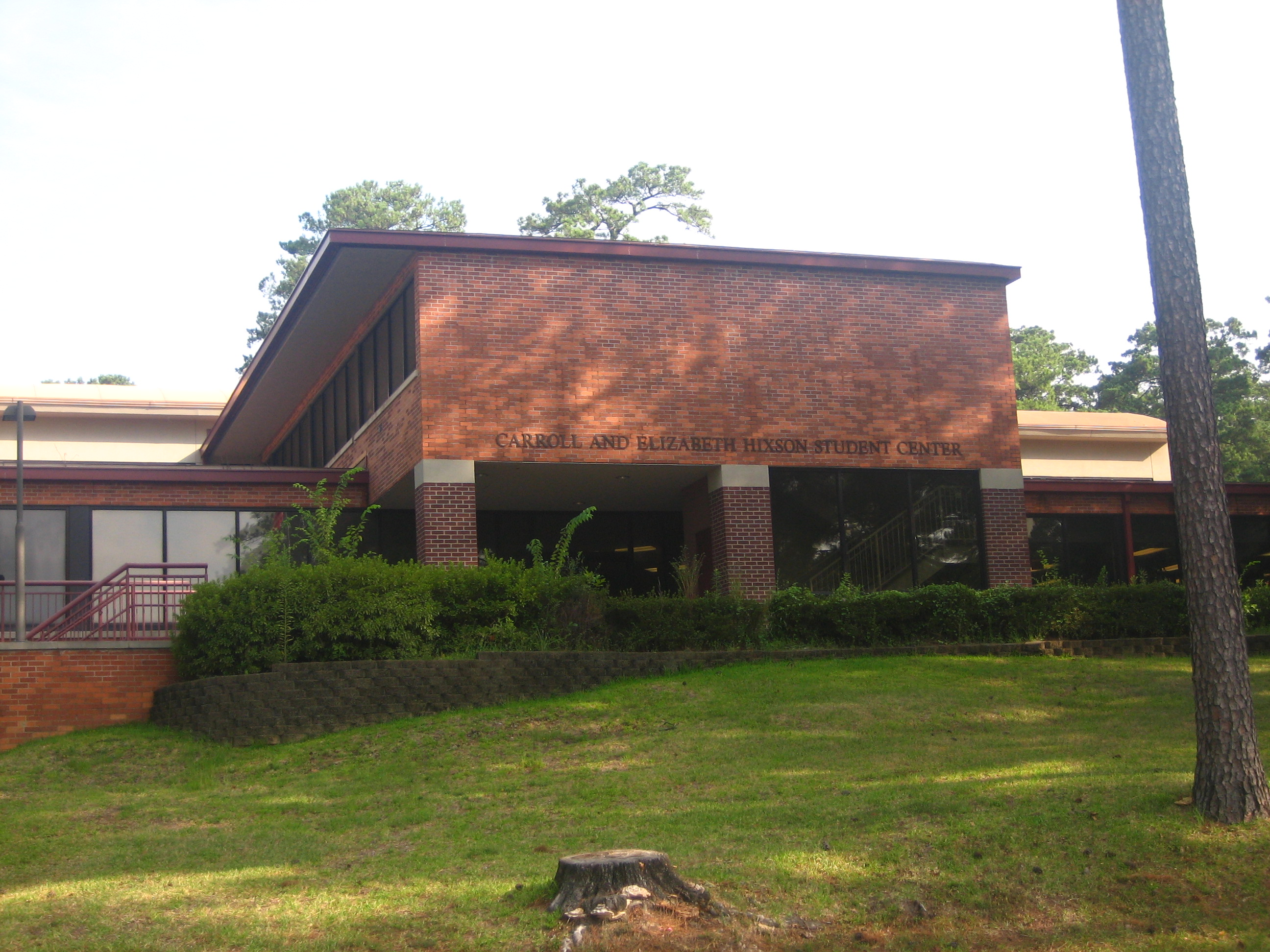 I took photo on Aug. 1, 2008.Billy Hathorn (talk) 03:42, 20 August 2008 (UTC)